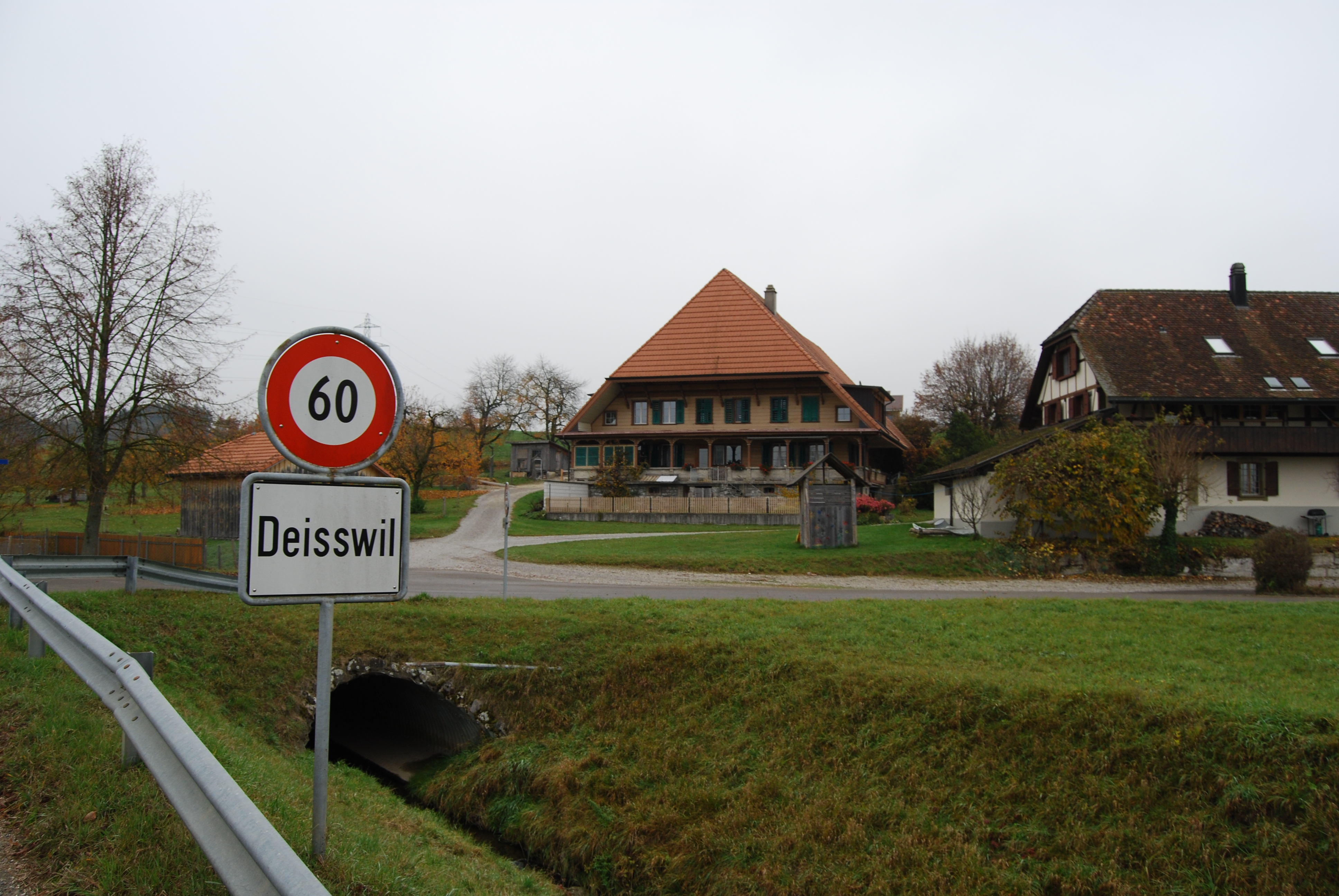 Deisswil bei Münchenbuchsee, canton of Bern, SwitzerlandEsperanto: Deisswil ĉe Münchenbuchsee, KantonoBerno, Svislando